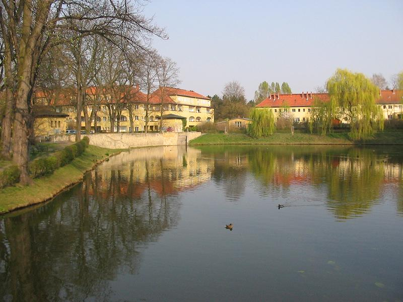 Lindenhofteich (lake) in the listed urban area Lindenhof in Berlin-Schöneberg nearby Alboinplatz (place), built between 1918 and 1921 by Heinrich Lassen and Martin Wagner . The Park is also listed and was projected by Leberecht Migge.